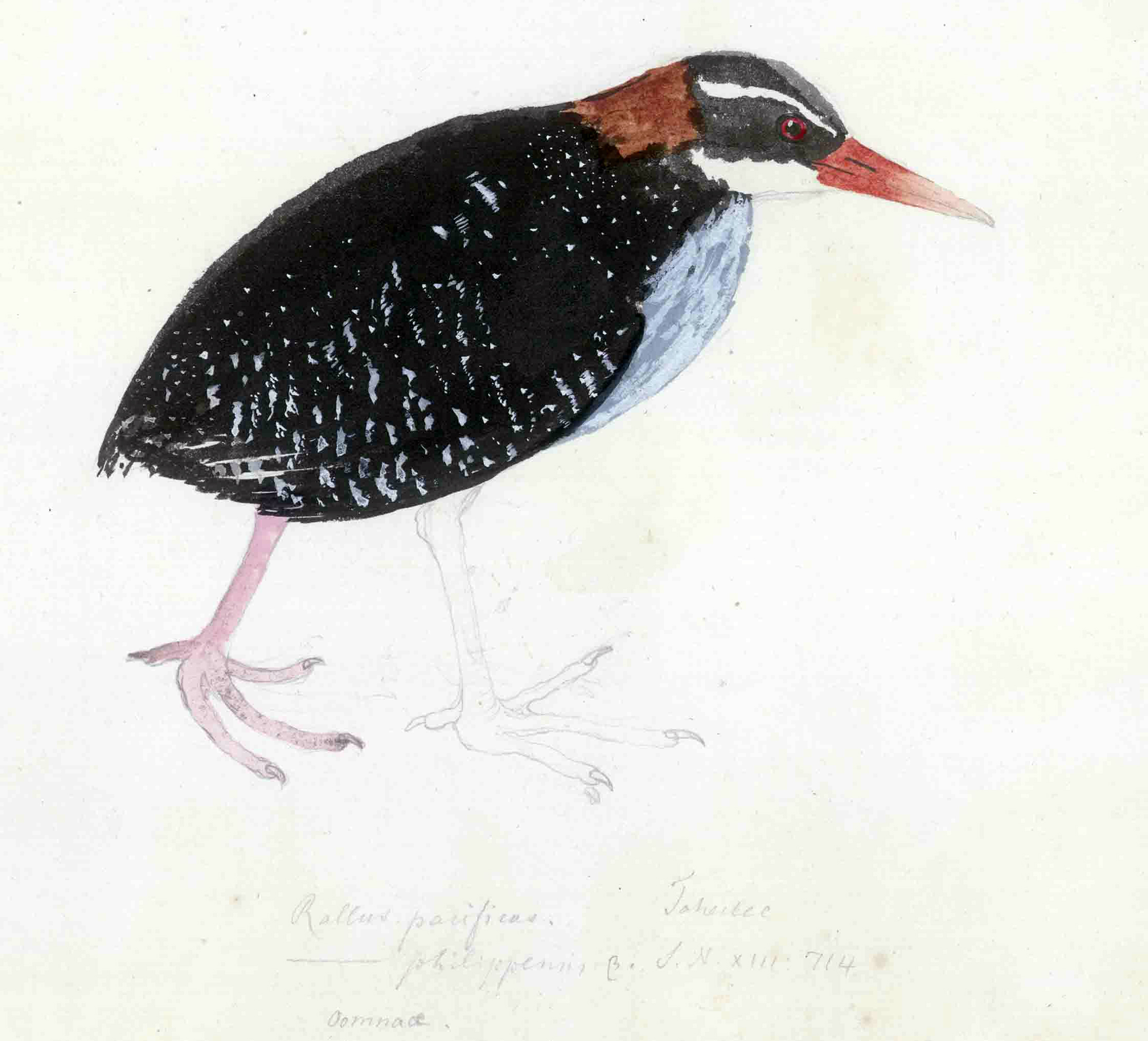 Watercolour of Gallirallus pacificus by George Forster, which is all the bird is known from.